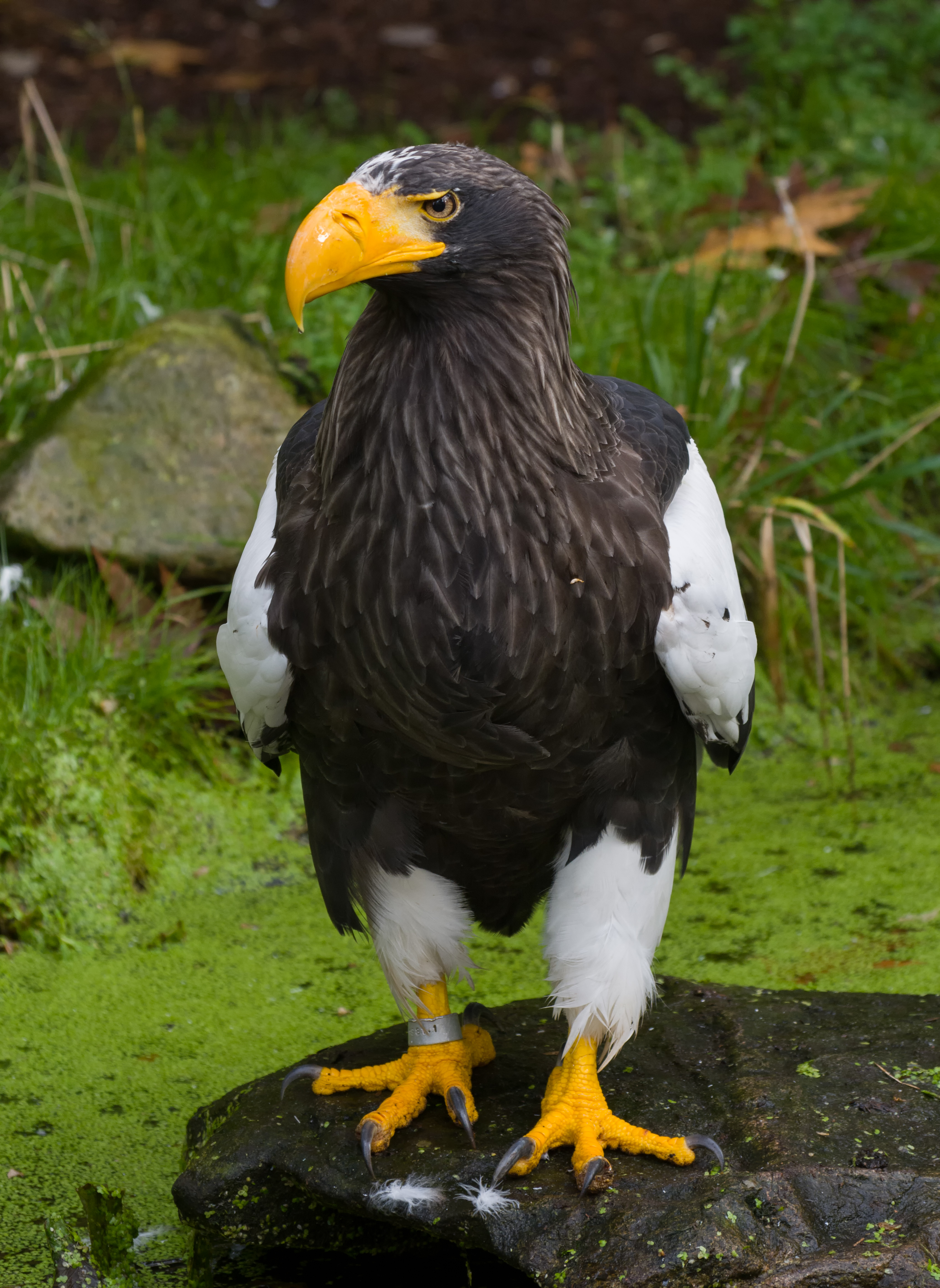 Steller's sea eagle (Haliaeetus pelagicus) in Weltvogelpark Walsrode